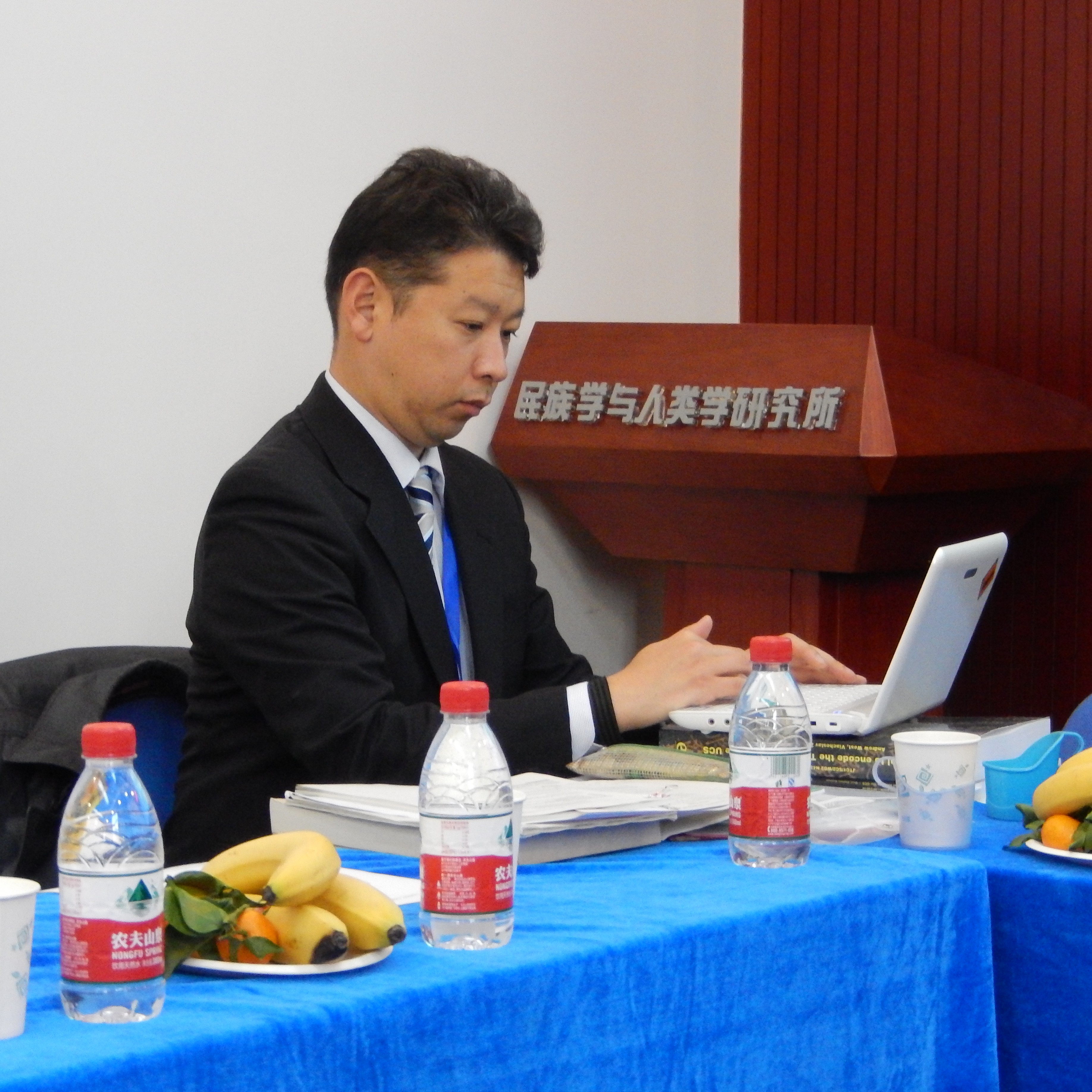 Professor Shintarō Arakawa at the International Tangut Encoding Conference (西夏字符国际学术研讨会) in Beijing, China, December 2013